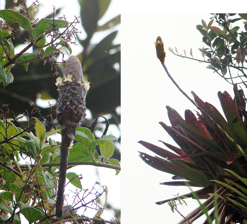 An unusual bromeliad, found from northern Peru to Costa Rica. Photo from the Condor Range, Peru/Ecuador border. In context at